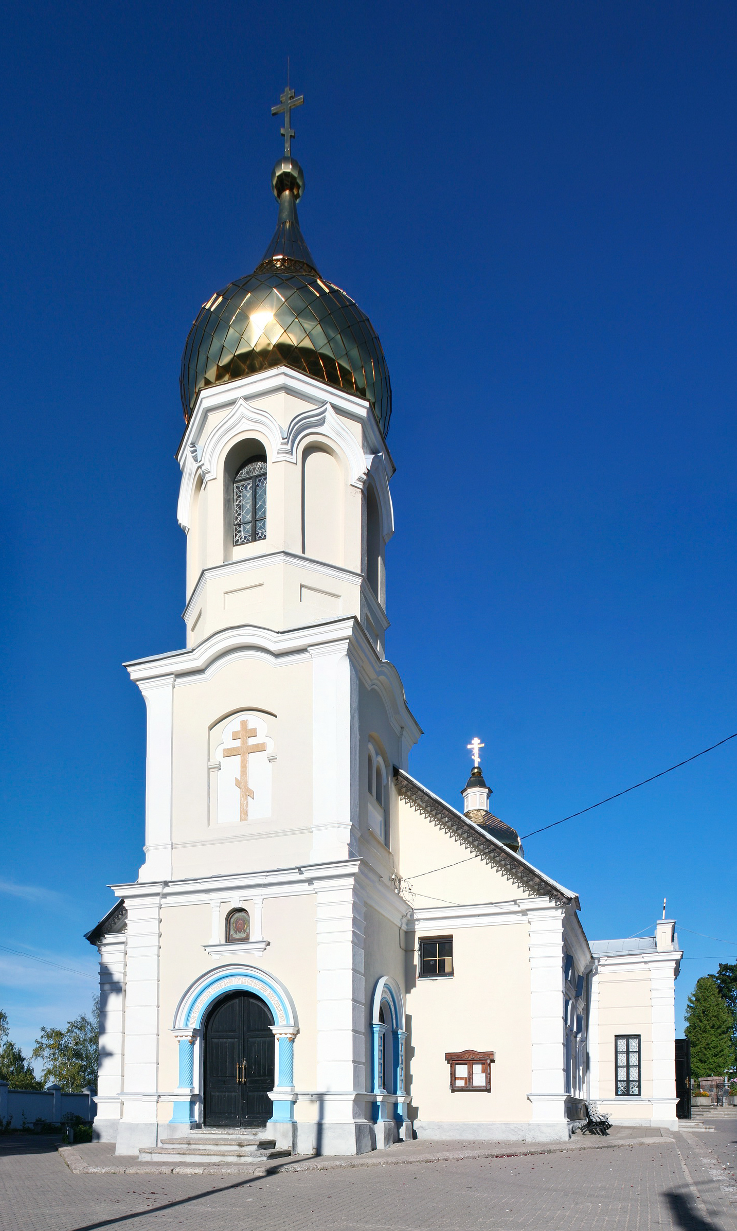 Old Believers' praying house in Vilnius. Constructed in 1900.